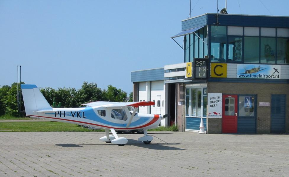 Ultravia Pelican PL at Texel International Airport in juni 2003.